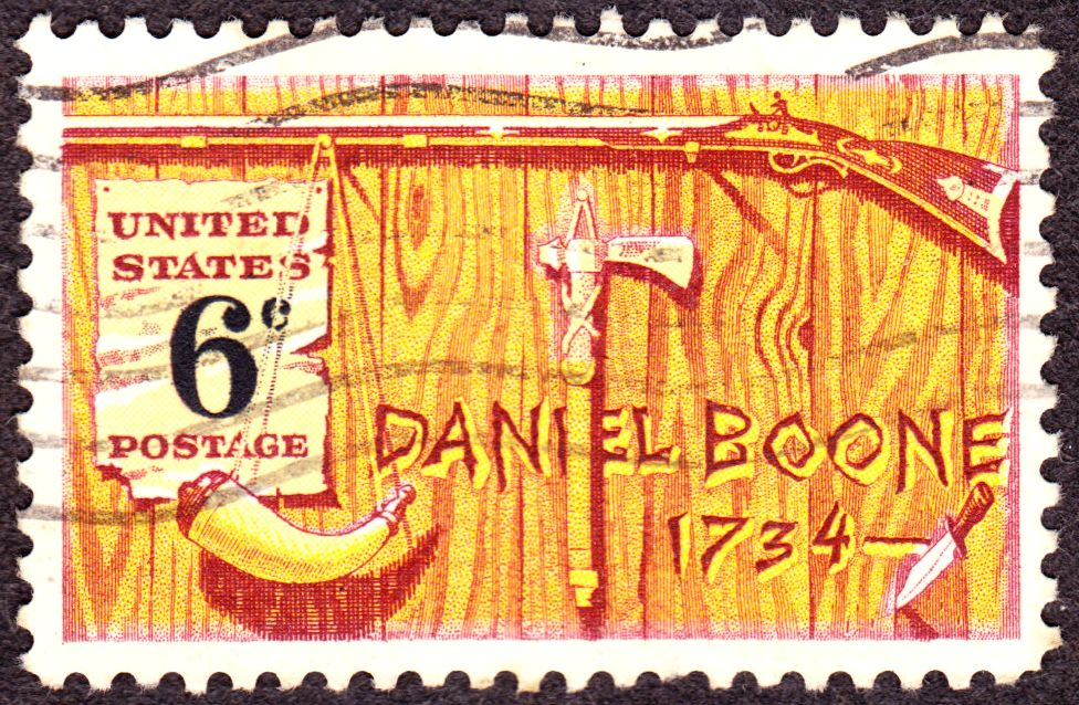 US Postage stamp, Daniel Boone commemorative issue of 1968, 6c